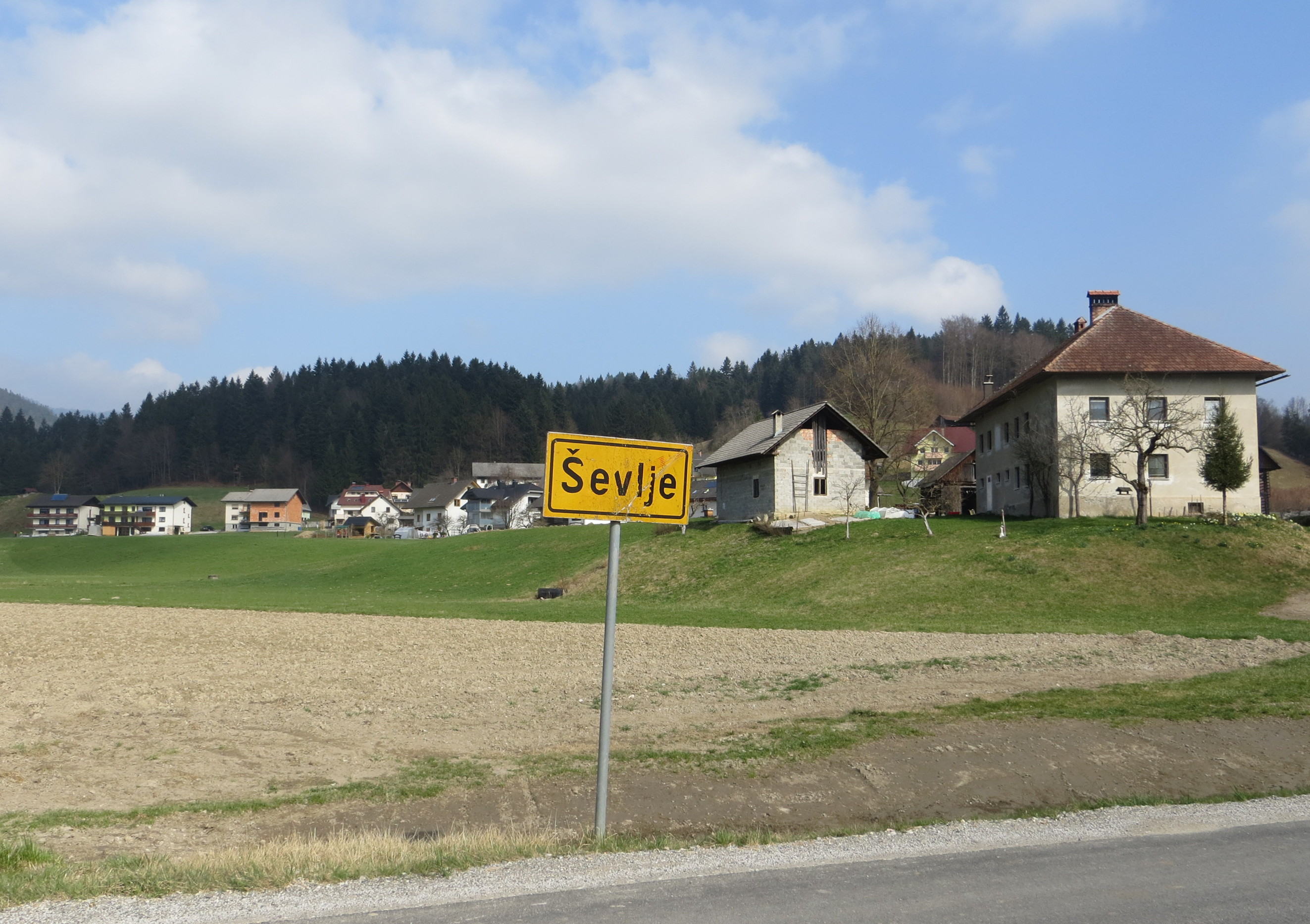 Ševlje, Municipality of Škofja Loka, Slovenia